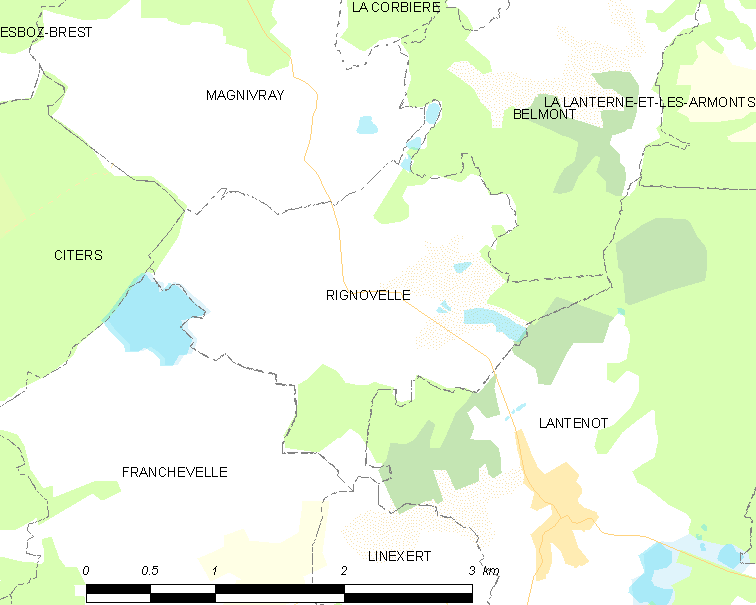 Map of French municipality